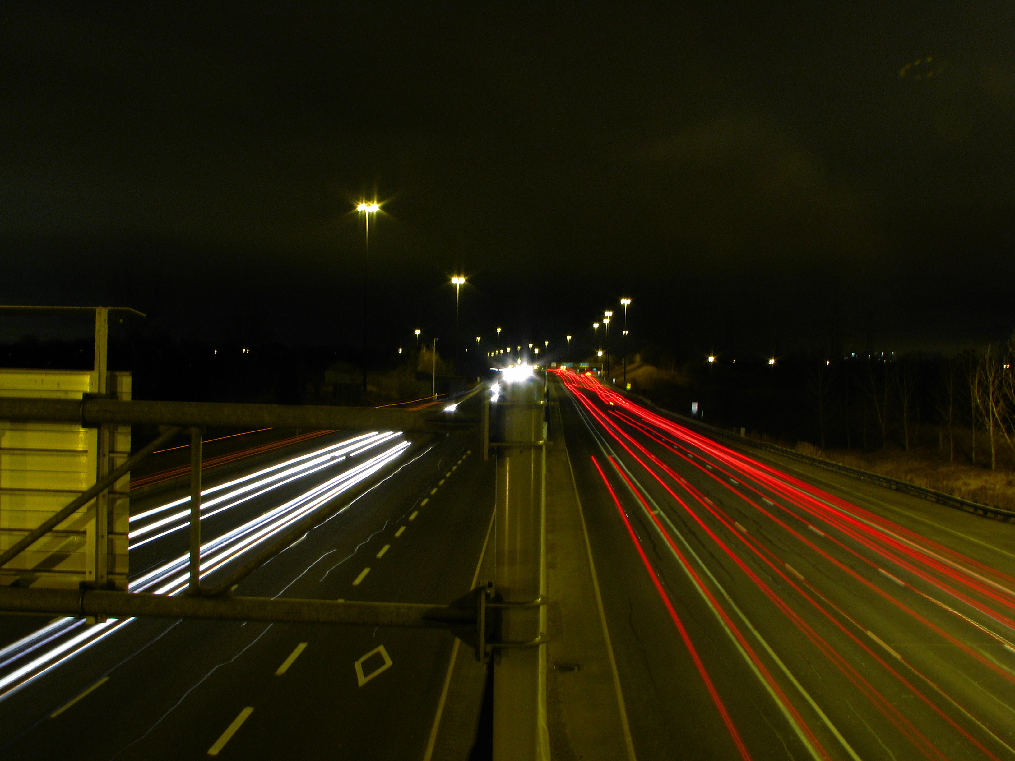 HOV lanes along Highway 403.